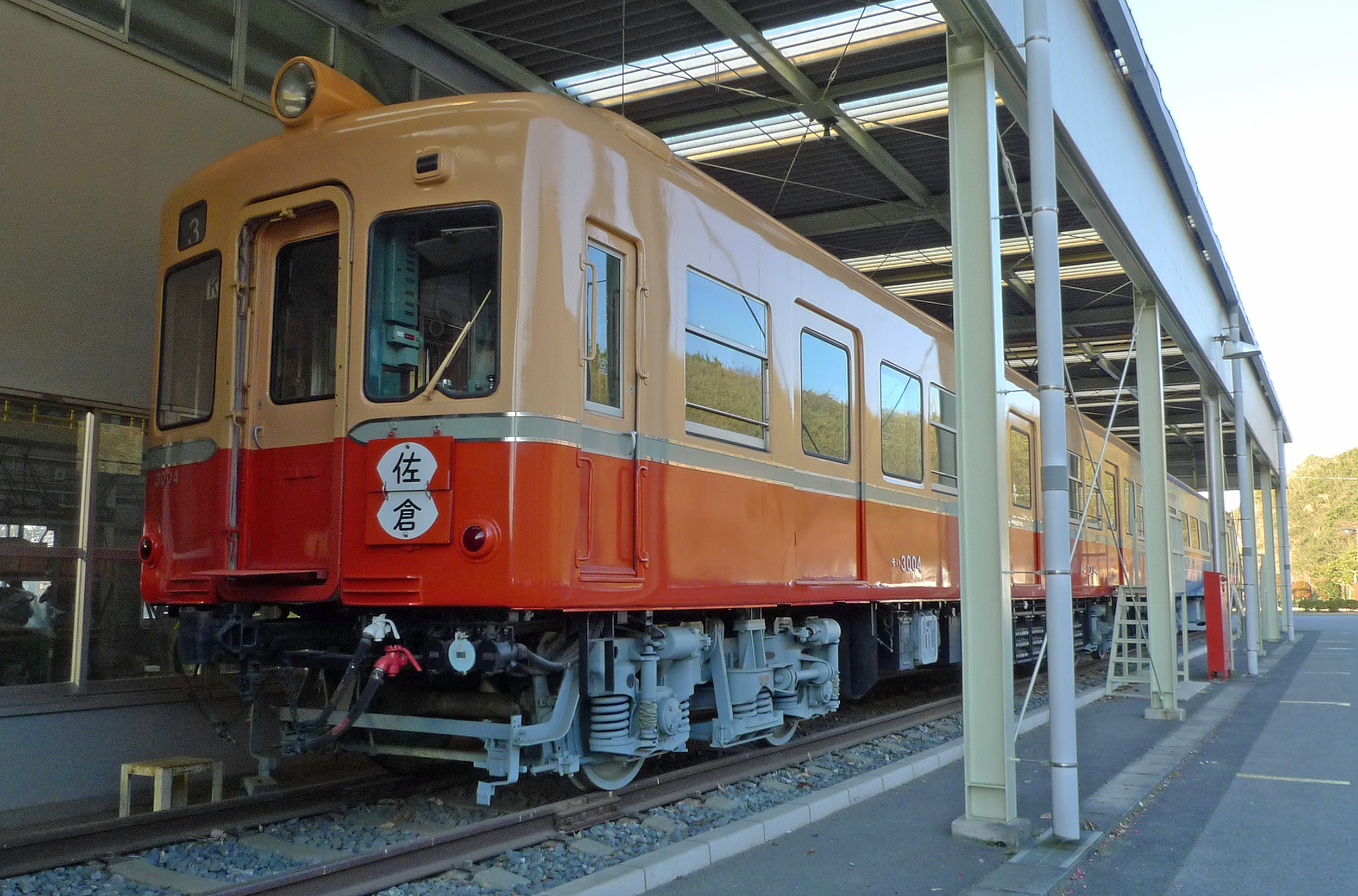 Keisei 3000(1st model) in Sougo-sandou Rail yard.